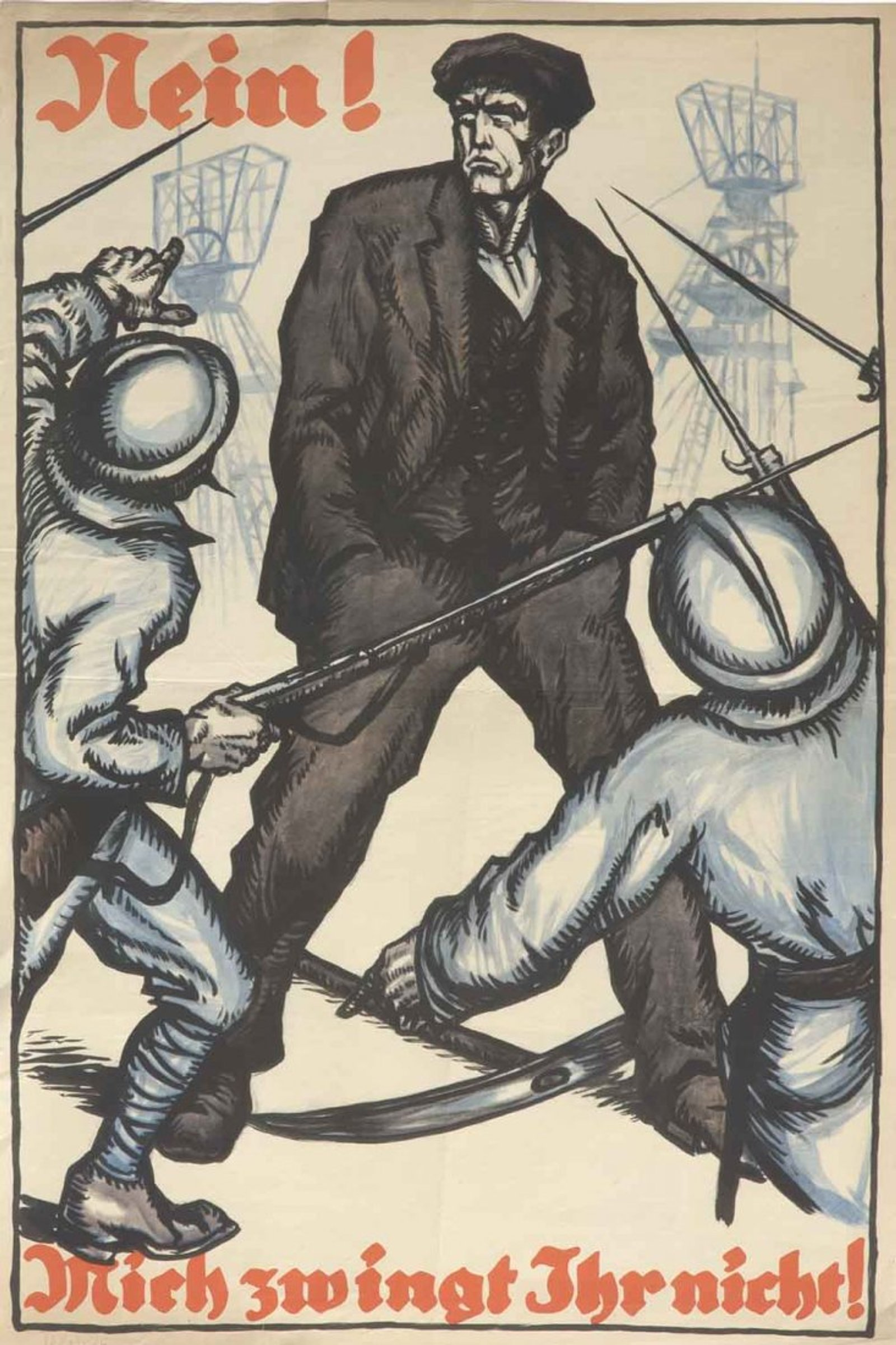 “Nein, mich zwingt ihr nicht!" Passiver Widerstand im “Ruhrkampf” 1923